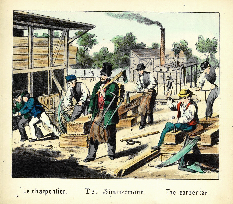 The carpenter